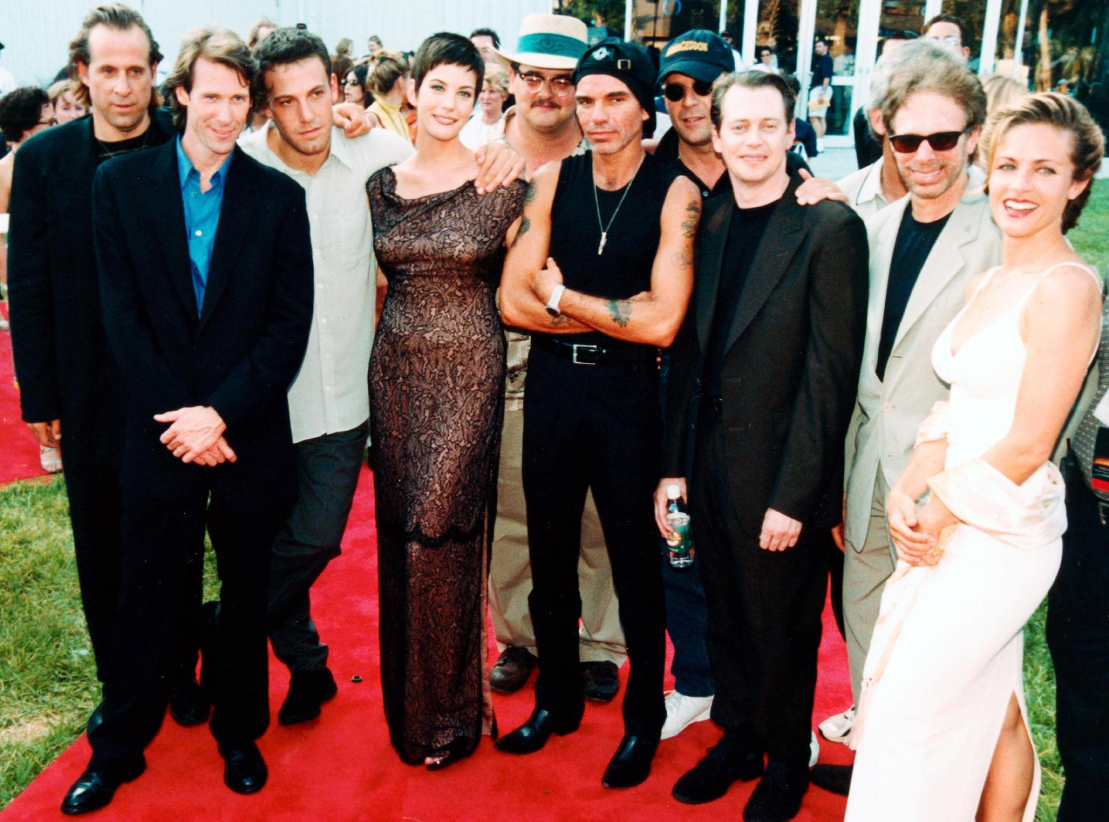 KENNEDY SPACE CENTER, FLA. -- Posing in front of the world premiere release of the film "Armageddon" are Peter Stormare, director Michael Bay, Ben Affleck, Liv Tyler, Ken Campbell, Billy Bob Thornton, Bruce Willis, Steve Buscemi, producer Jerry Bruckheimer and Jessica Steen. The screening was held in a theater specially constructed at the Apollo/Saturn V Center at the Kennedy Space Center. The movie was partly filmed at KSC, and as part of the premiere festivities, guests had a chance to see many of the sites actually used in the film as well as explore a wide range of NASA artifacts and displays. A private party that included a performance by rock band Aerosmith followed the premiere.